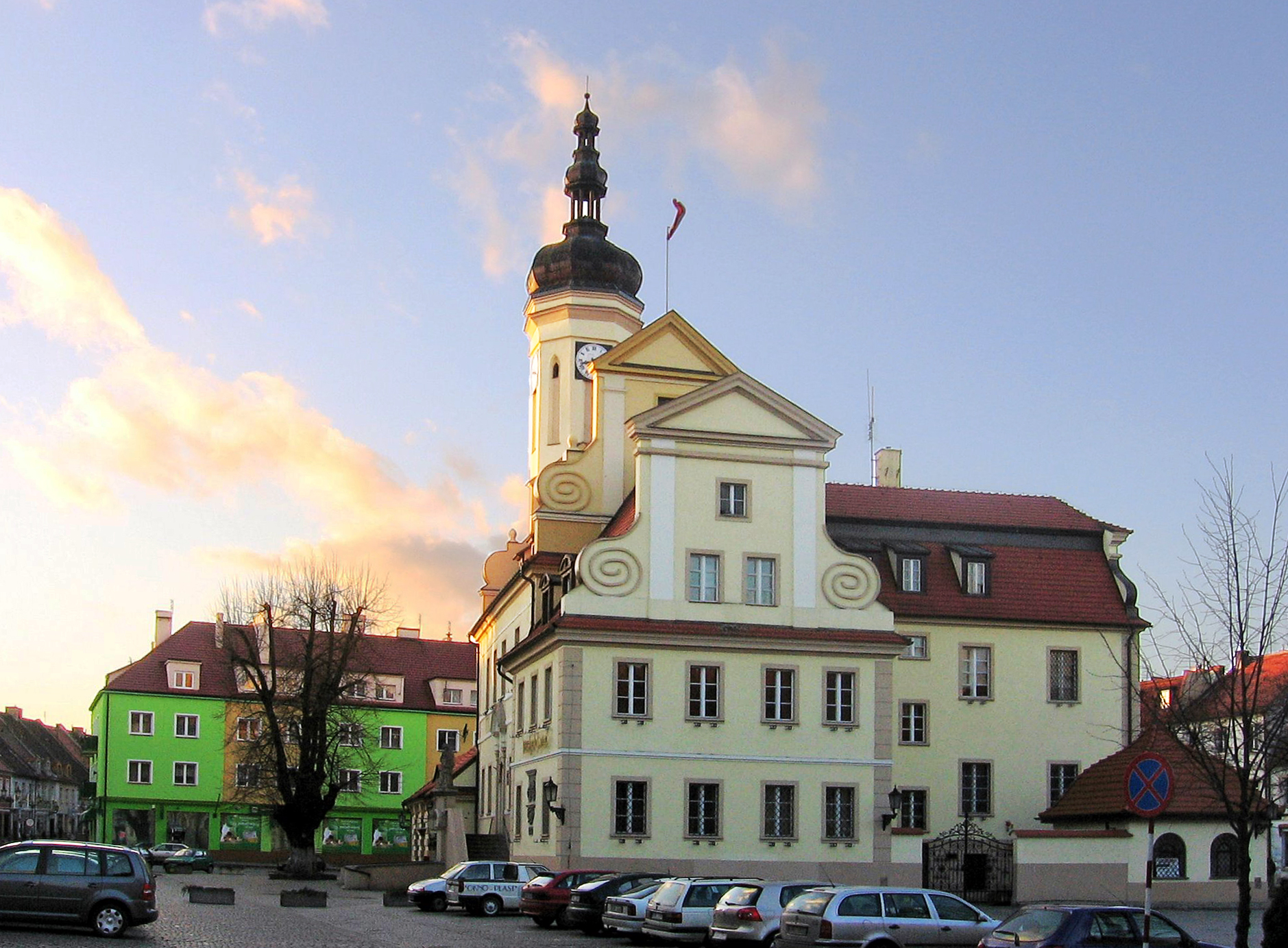 Wołów - town hall and the market place